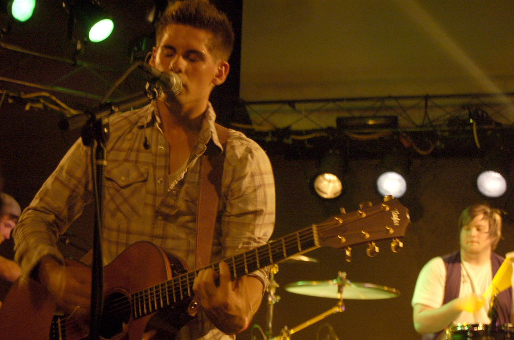 This is a picture of Adam Cappa taken on June 27, 2009.